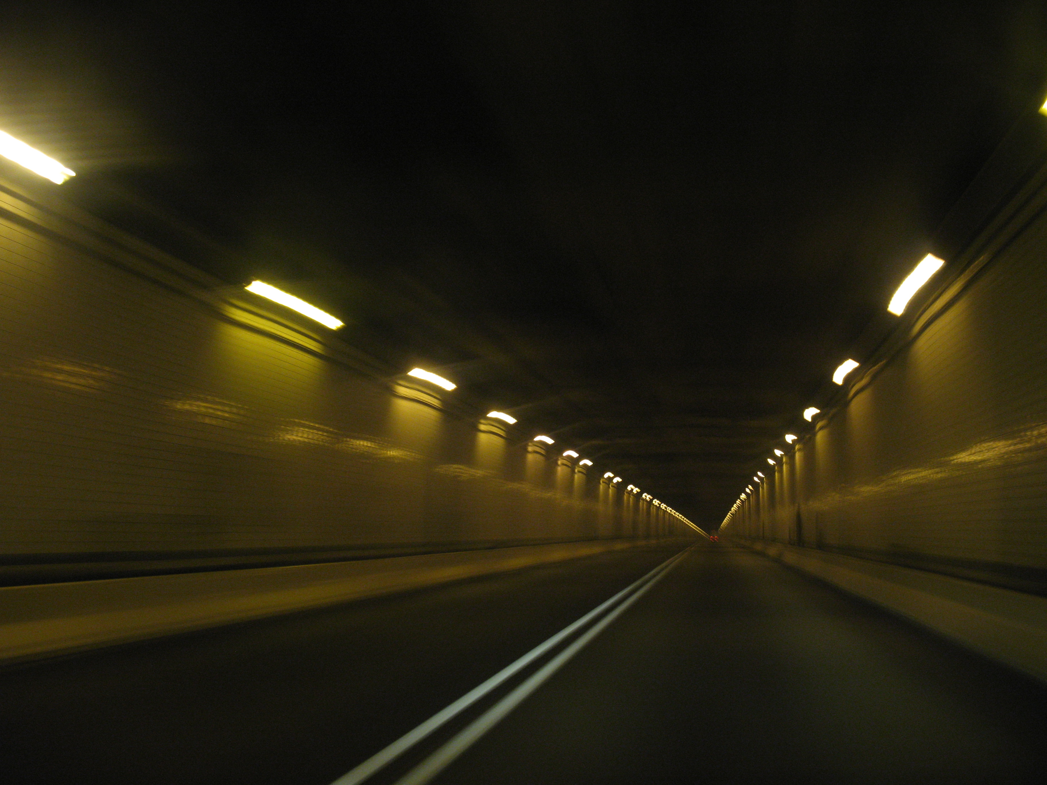 I-76 (Pennsylvania Turnpike) Allegheny Mountain Tunnel Traveling eastbound